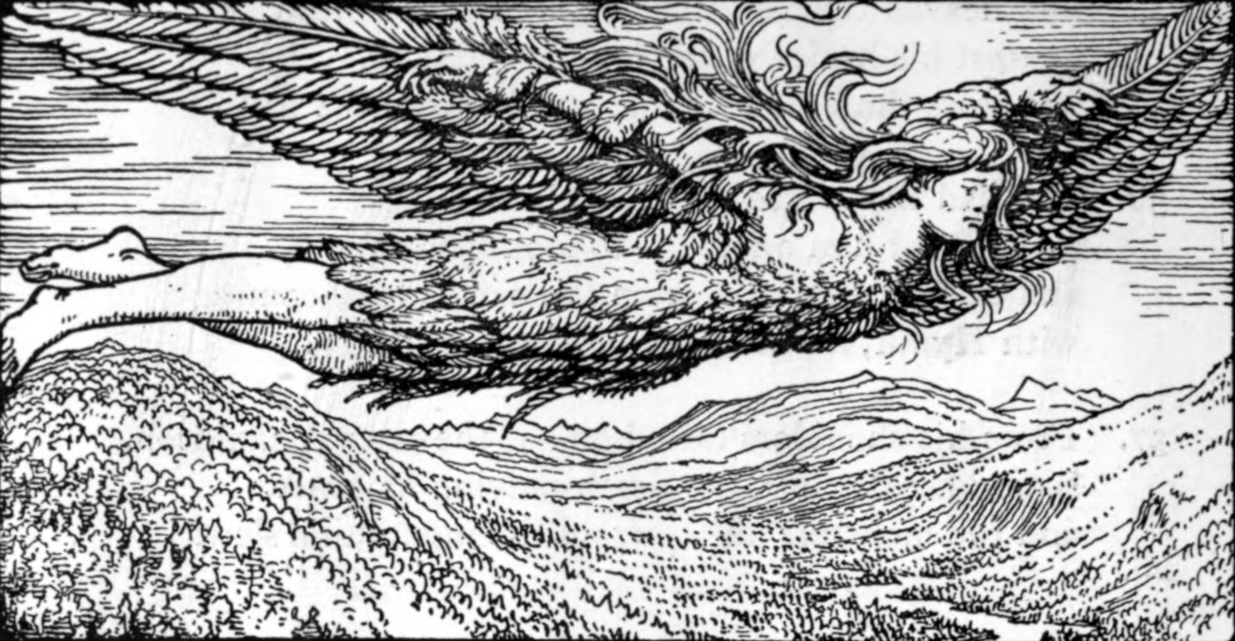 Illustration to Þrymskviða. The list of illustrations in the front matter of the book gives this one the title Loki's flight to Jötunheim.